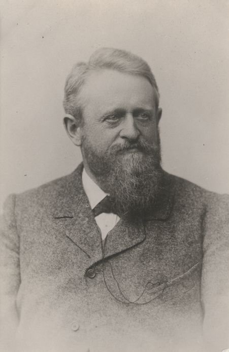 Siegmund Günther